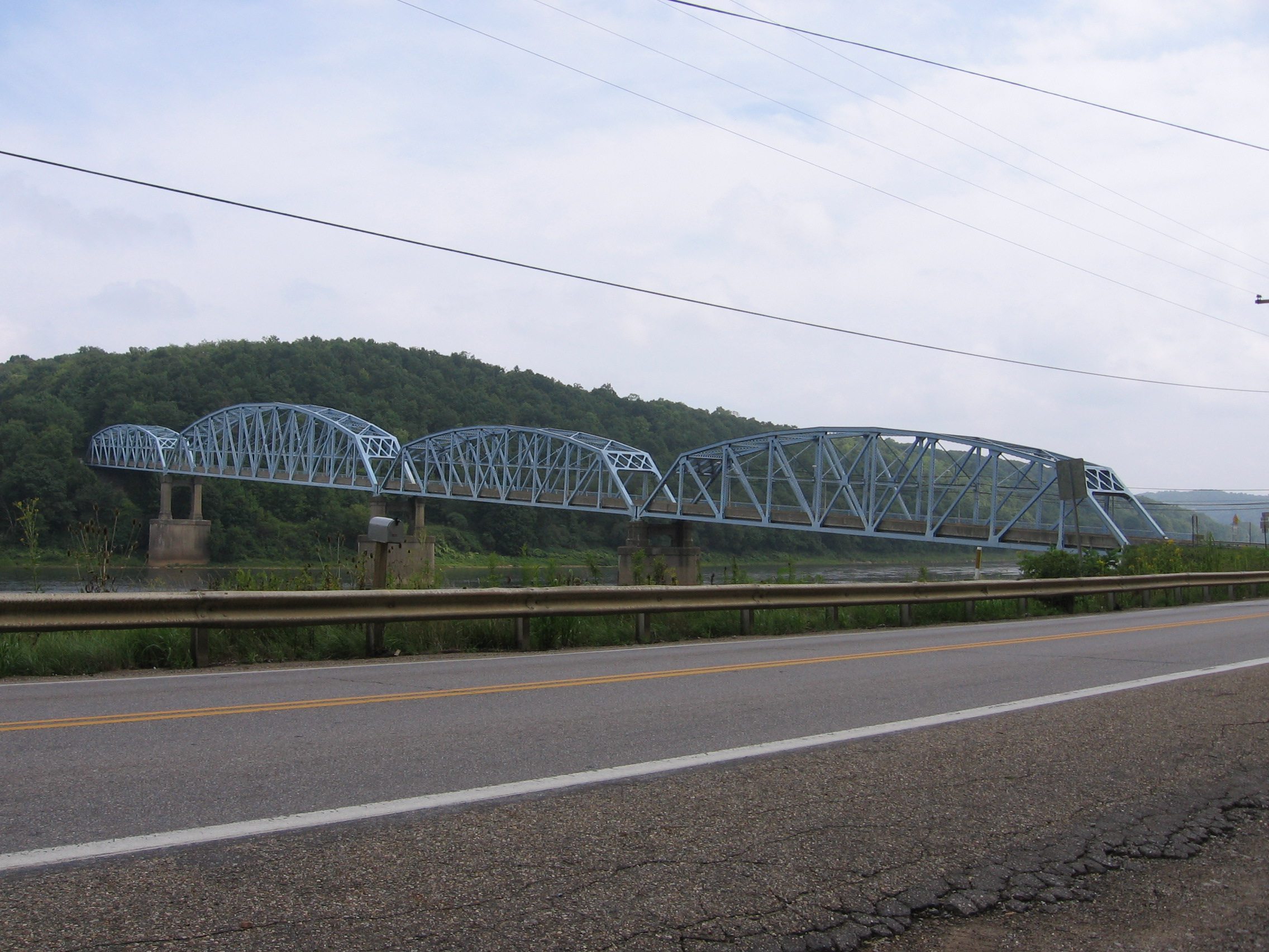 Parker Bridge in Parker. Photo taken by Mvincec on 22 August, 2007.